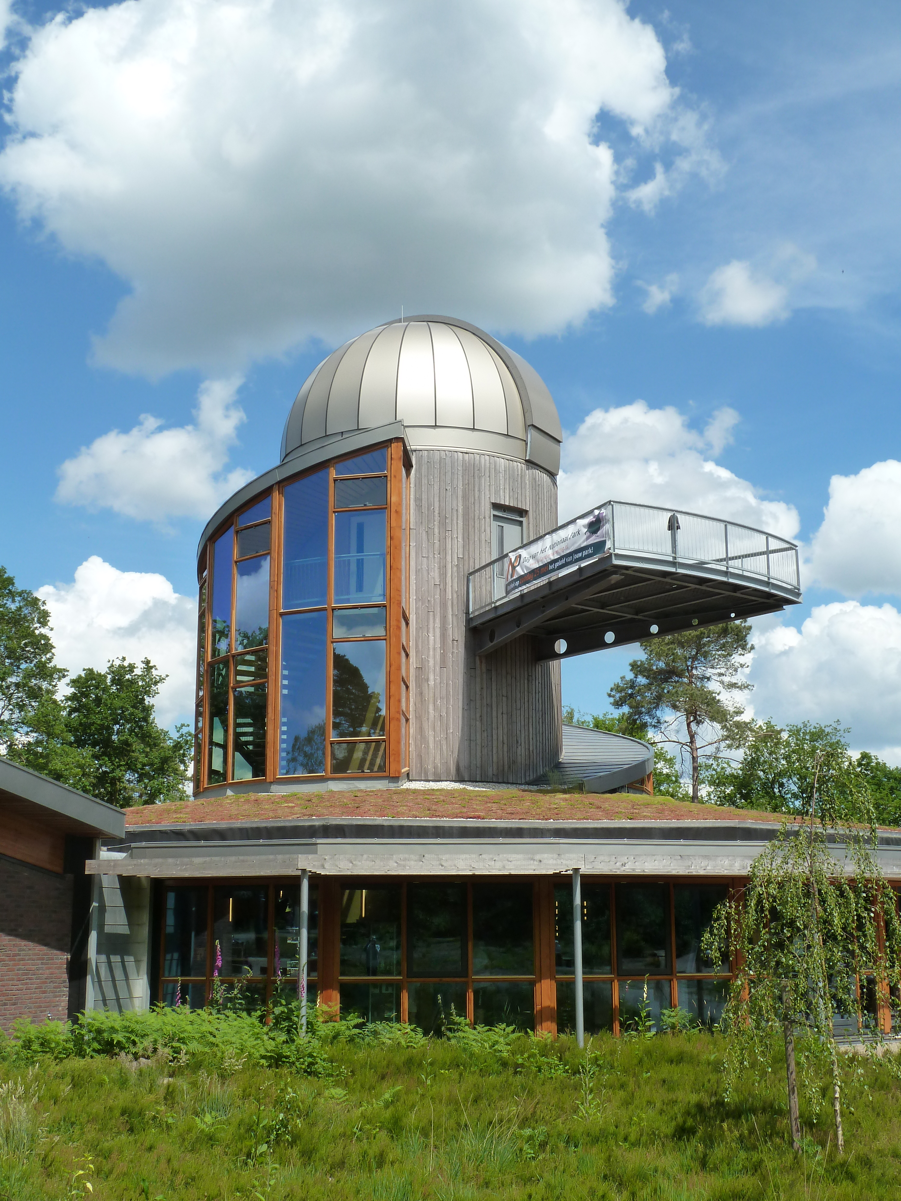 Visitors centre of National Park Sallandse Heuvelrug with star observation, Nijverdal, Overijssel, Netherlands This is a photo or sound file made in Sallandse Heuvelrug National Park in the Netherlands, with the main subject of the file in the category: humans in nature